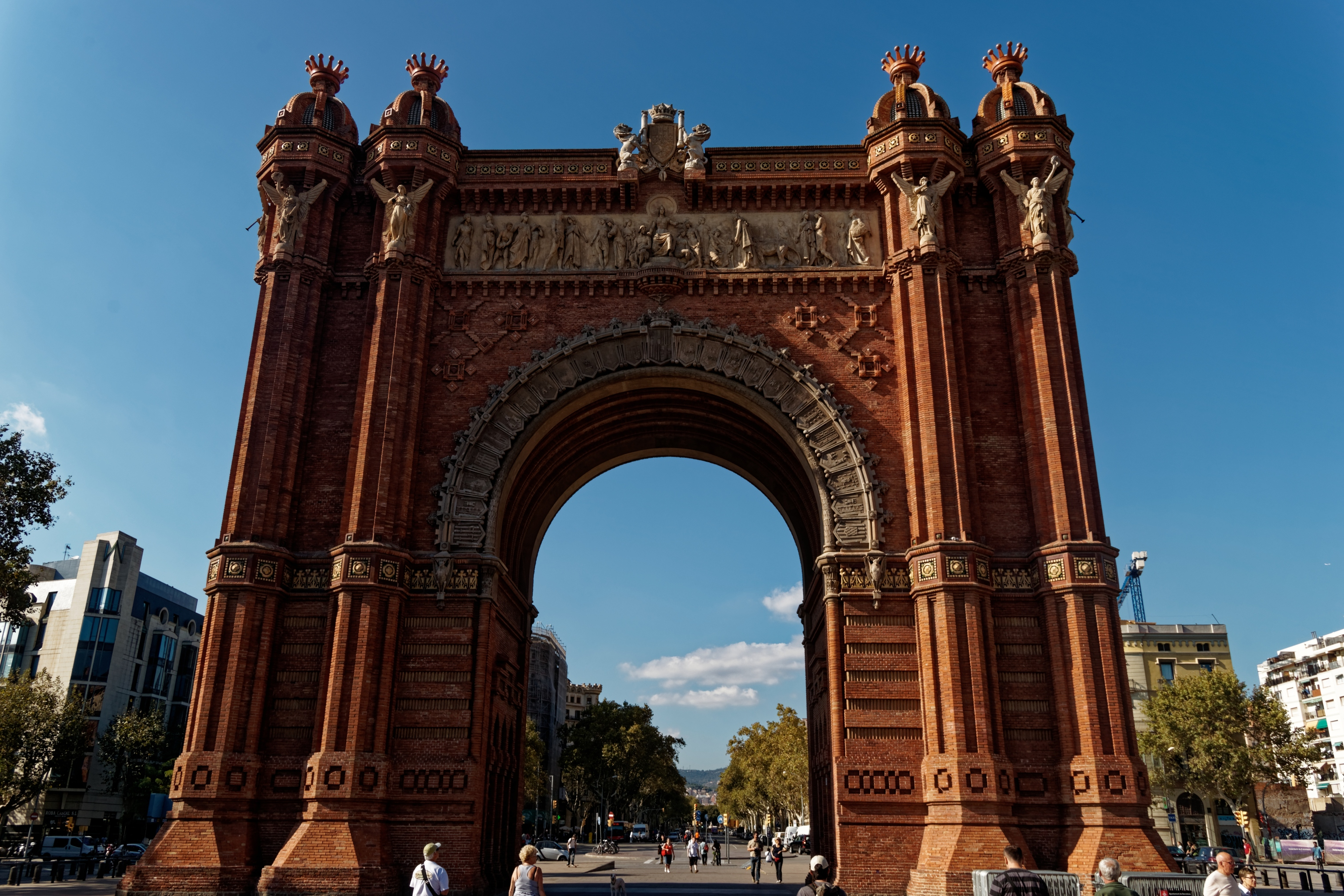 Barcelona - Passeig de Lluís Companys - View NW on Arc de Triomf 1888 by Josep Vilaseca i Casanovas